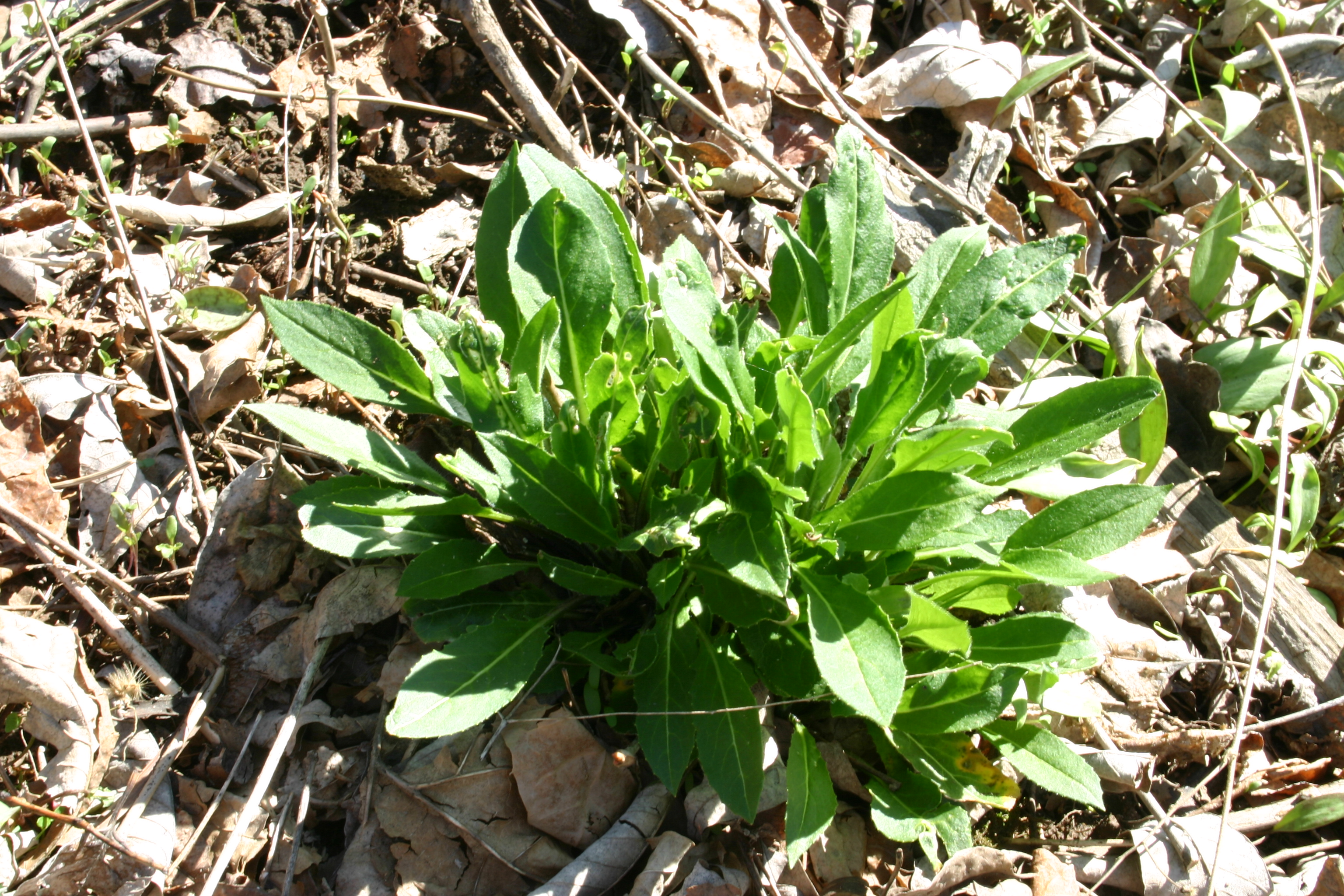 Hesperis matronalis basal whorl in early spring